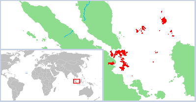 The extend of Riau-Lingga sultanate.